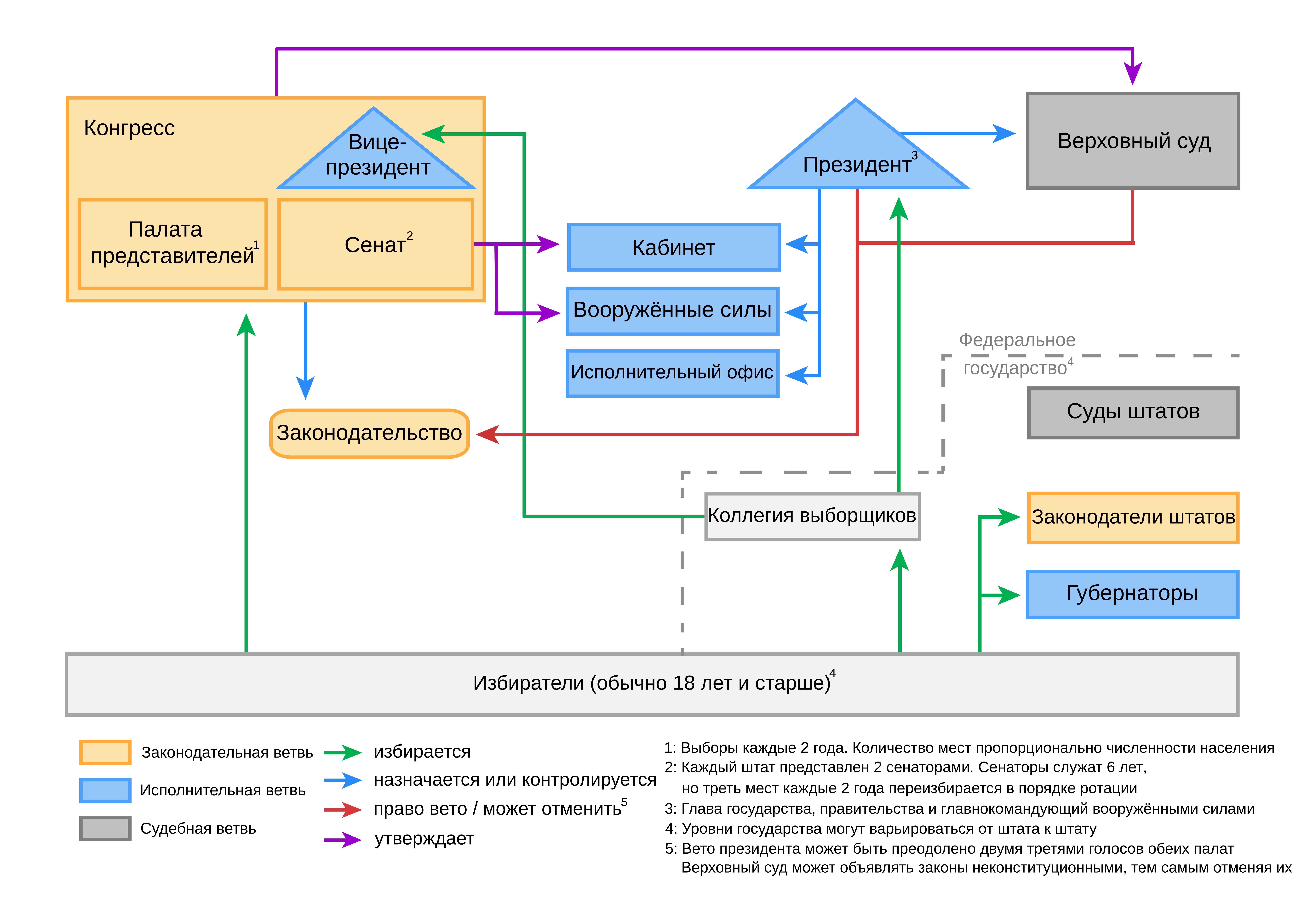 Political system of the United States